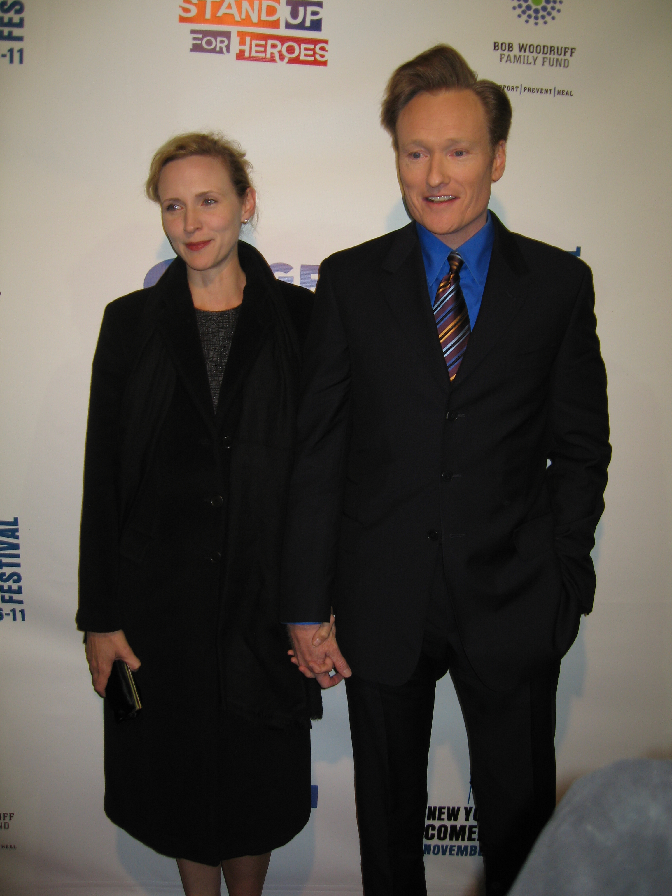 American comedian Conan O'Brien at "Stand Up for Heroes," a comedy and music benefit organized by the Bob Woodruff Family Fund to raise money for injured U.S. servicemen. Pictured with him is his wife, Elizabeth Ann Powel.